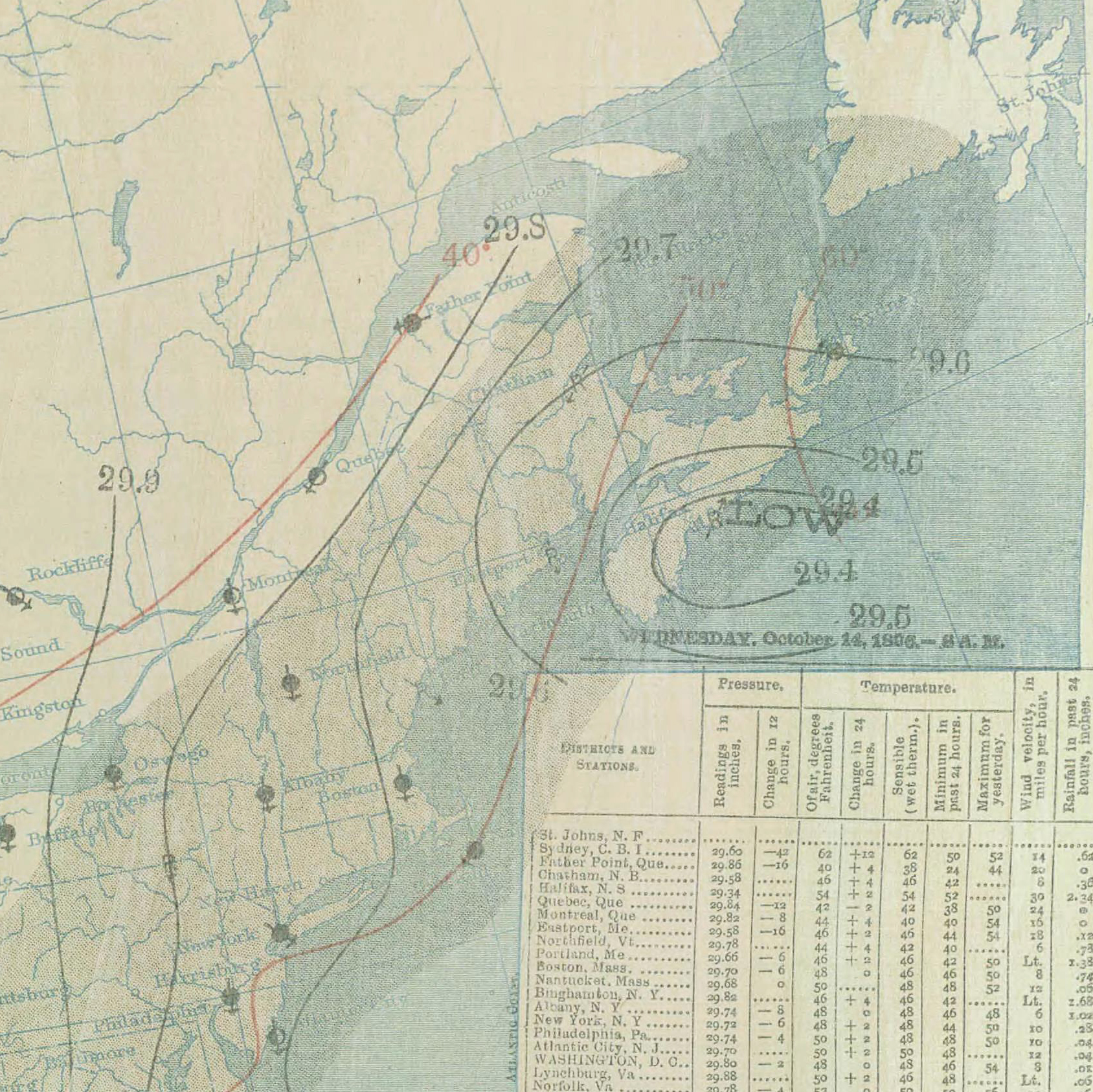 Surface weather analysis of a hurricane off the coast of Nova Scotia at 8:00 am on October 14, 1896.